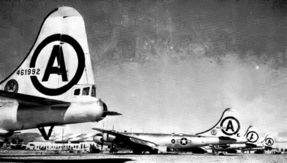 Typical Flight Line scene of l06th Bomb Wing(M) B-29's at March Air Force Base, California